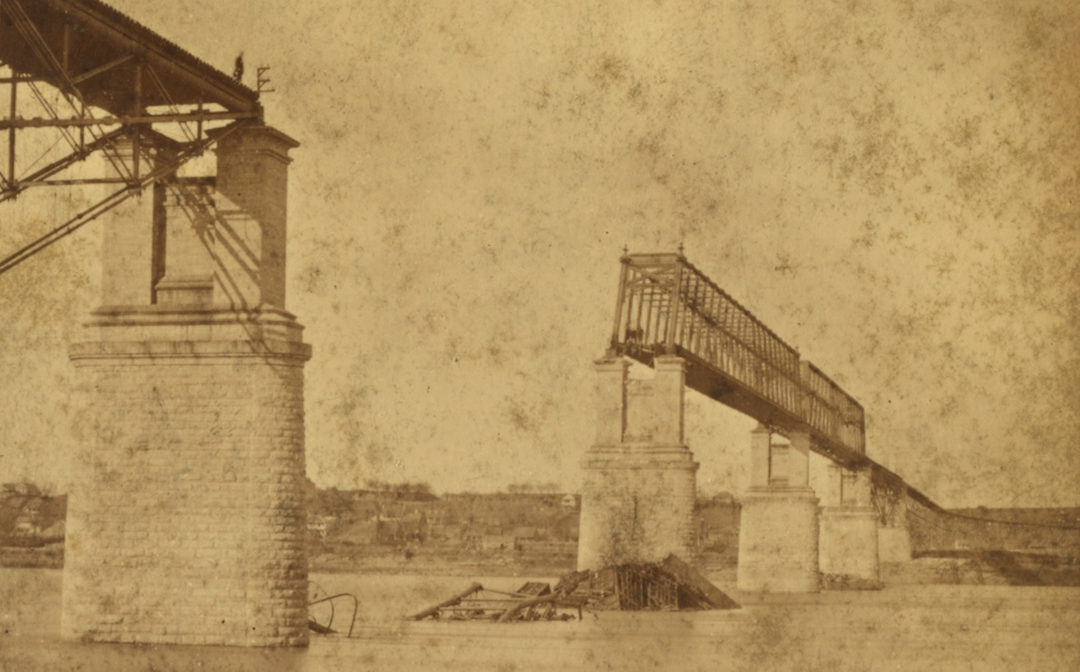 St. Charles Bridge / Wabash Railroad Bridge